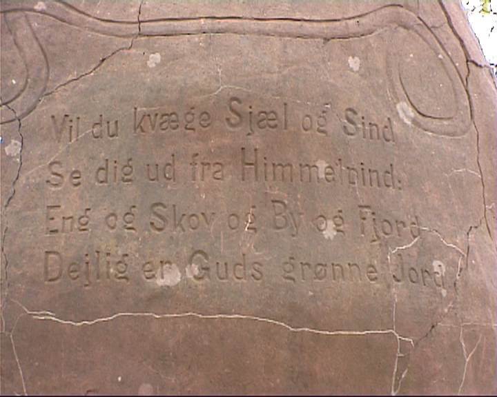 Poem on stone on hill (Himmelpind) in Vejle, Denmark